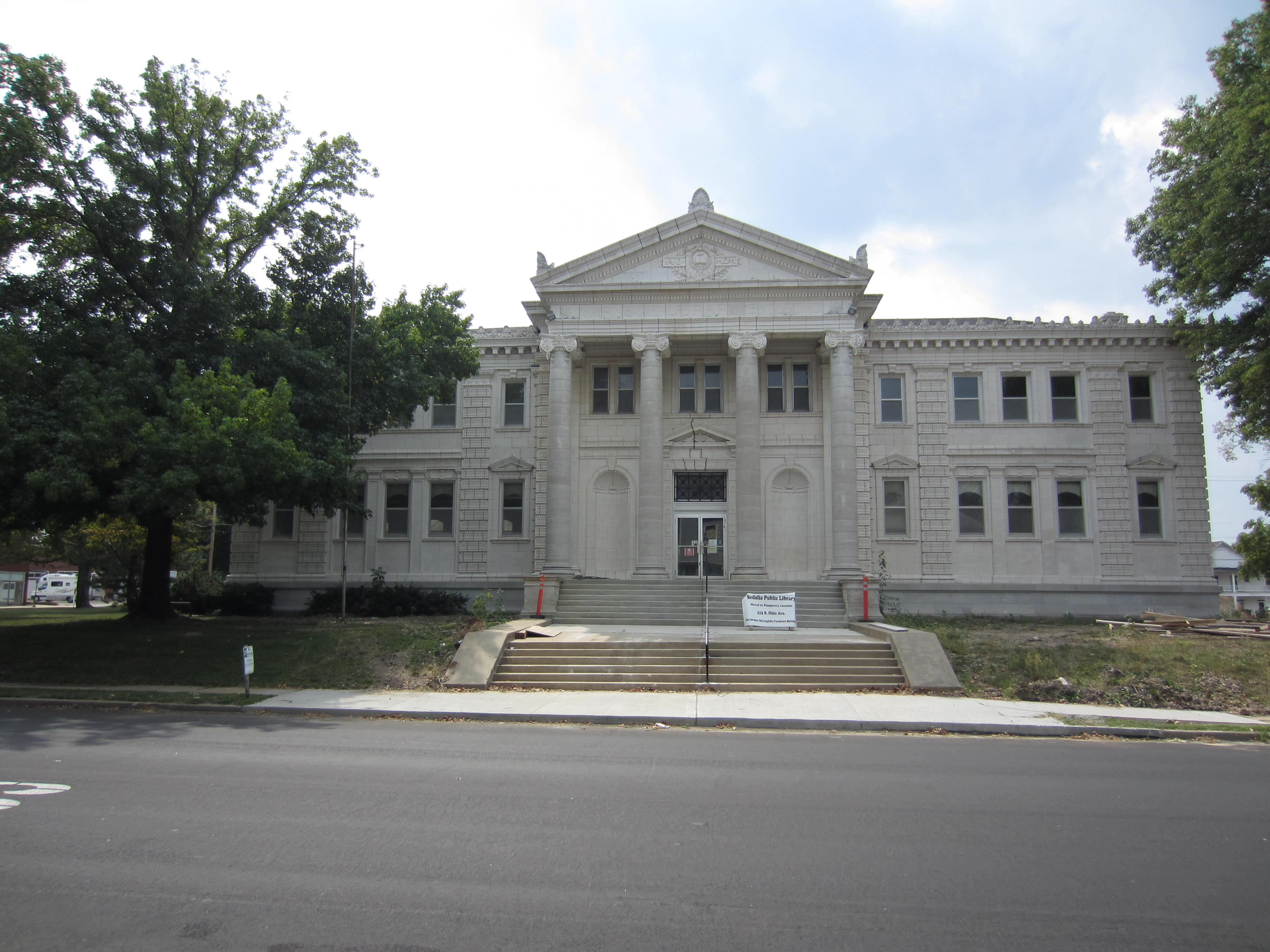 Andrew Carnegie funded public library, Sedalia, MO. (2013)